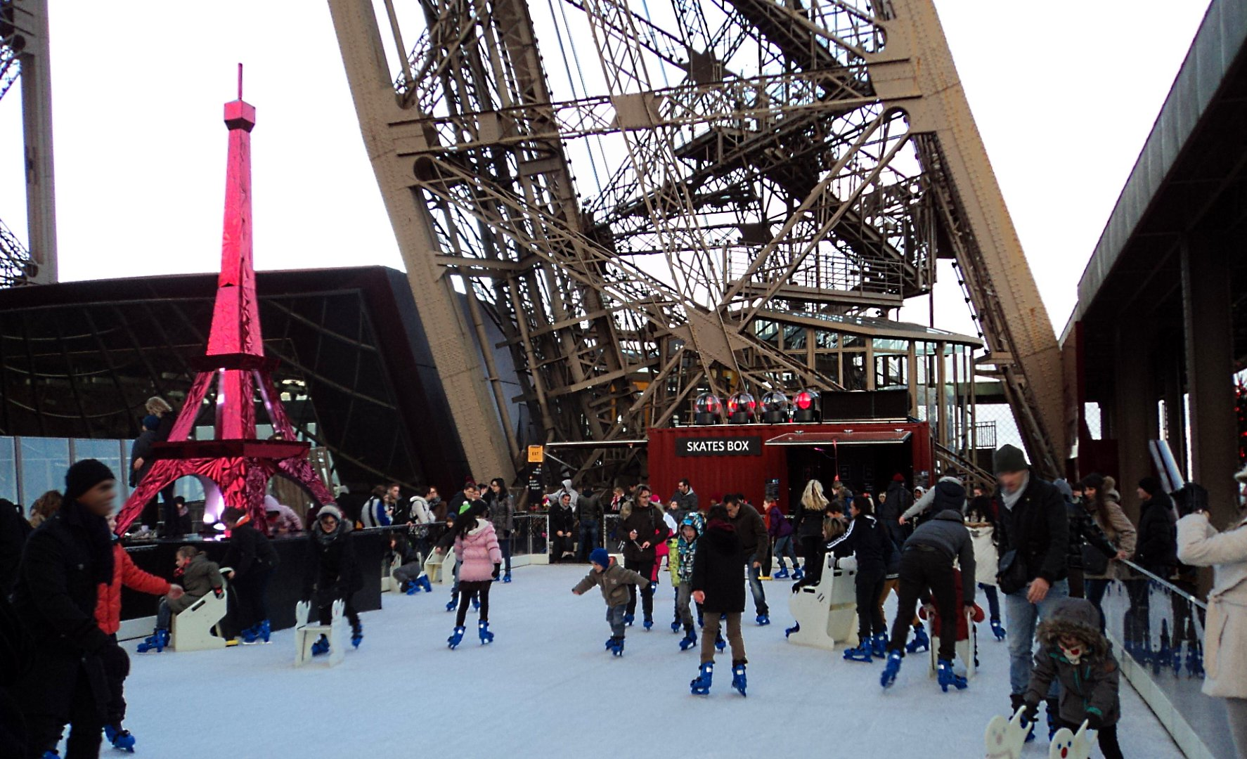 2014-2015 The Eiffel Tower ice rink.